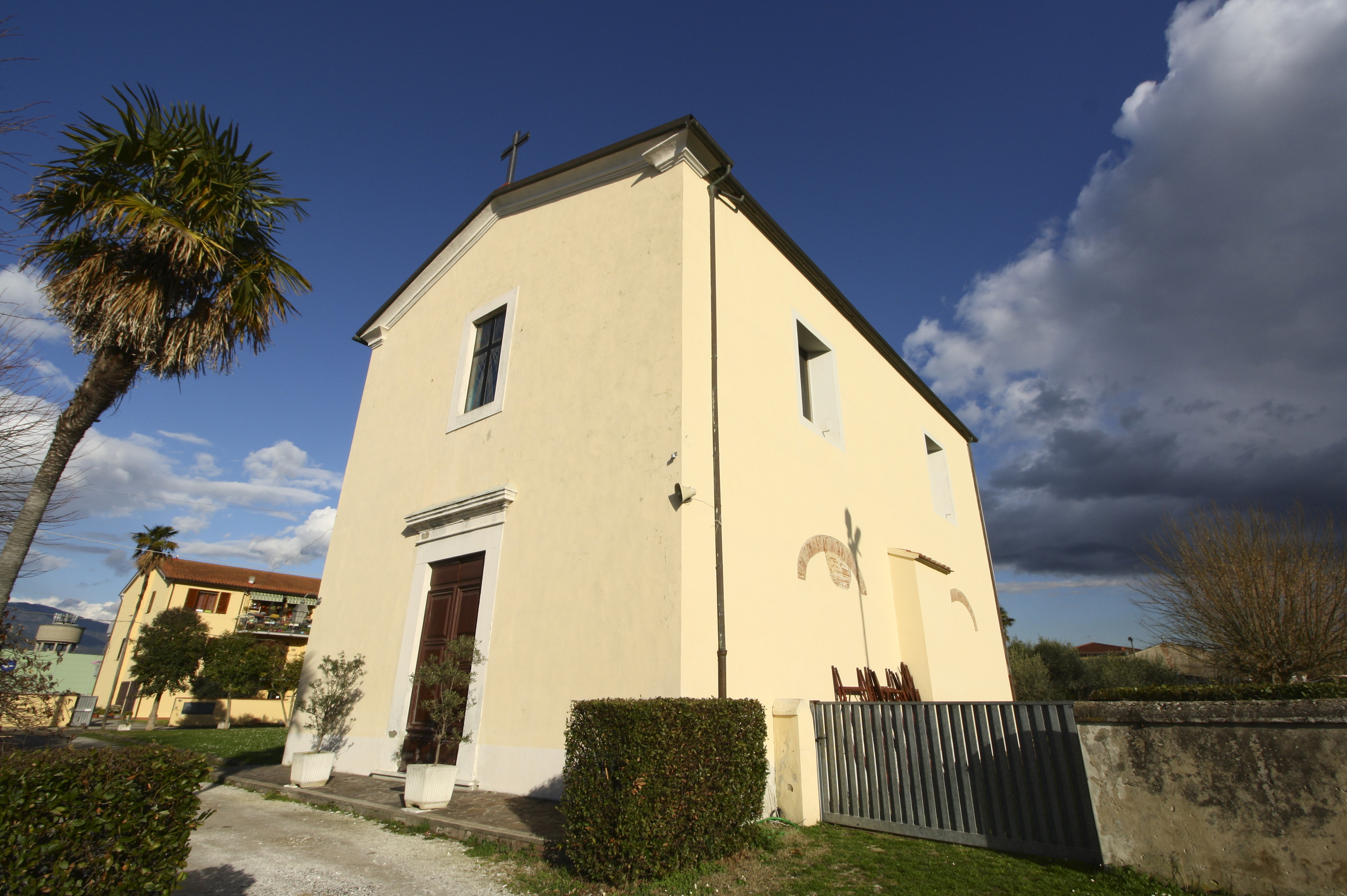 Church Santi Pietro e Giusto, Visignano, hamlet of Cascina, Province of Pisa, Tuscany, Italy